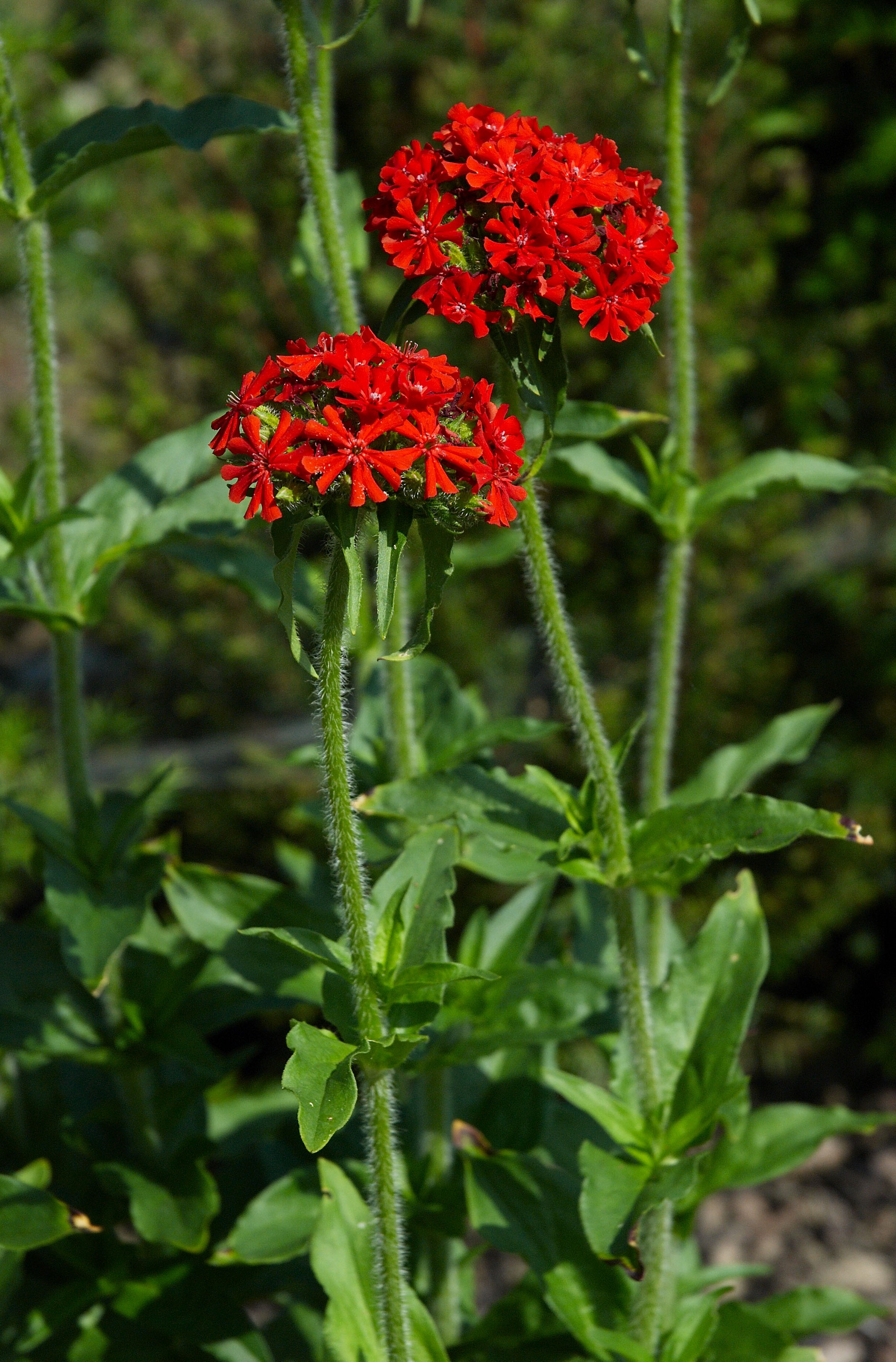 Maltese Cross, Jerusalem Cross, Dusky Salmon, Burning Love, or Nonesuch